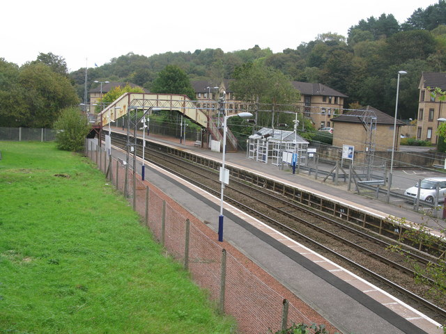 Hillfoot Railway Station, near to Bearsden, East Dunbartonshire, Great Britain. The station between Bearsden and Milngavie.